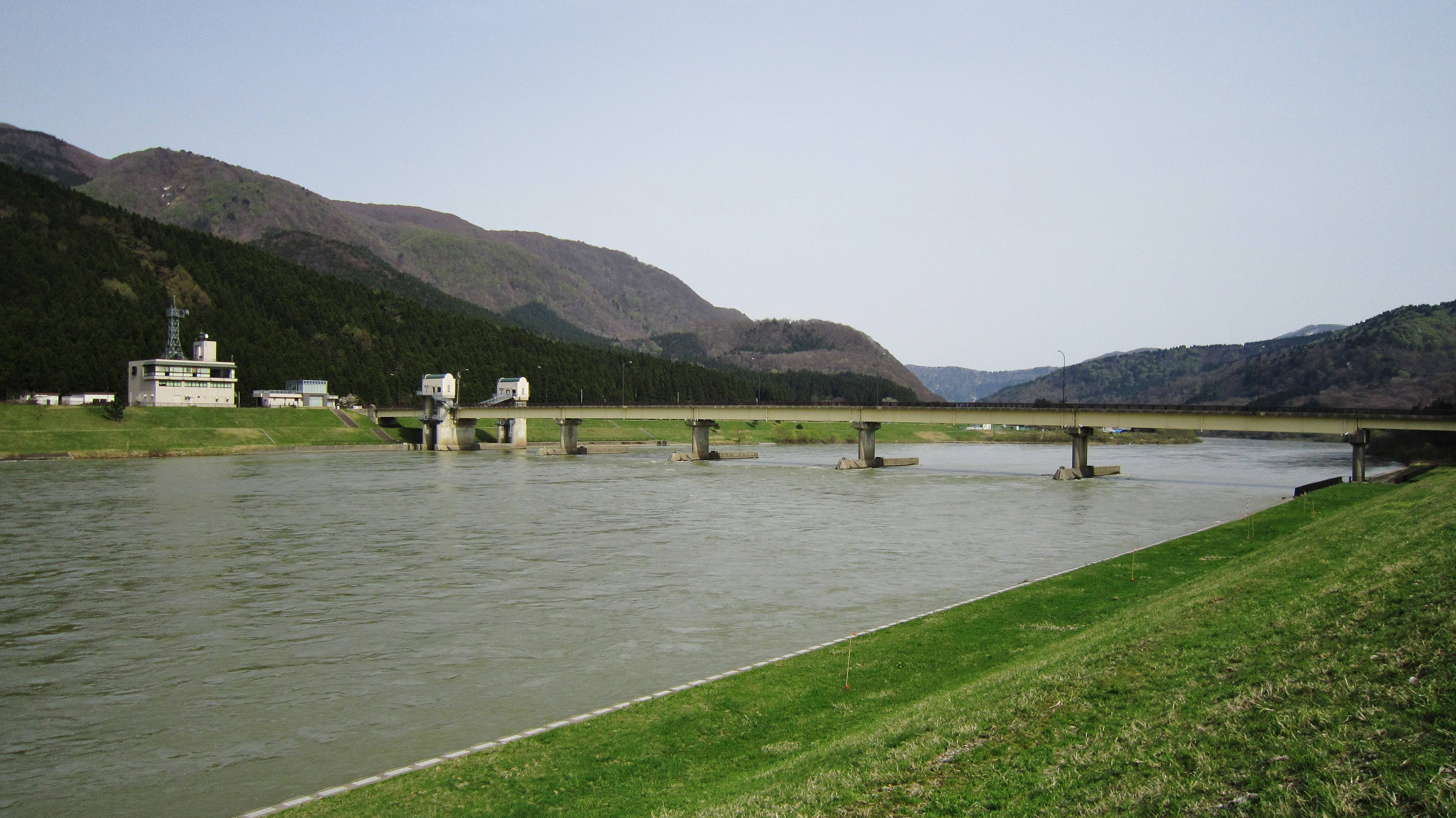 Mogamigawa Samidare Ōzeki.